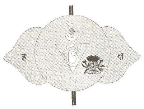 Traditional Hindu Diagram of Brow Chakra